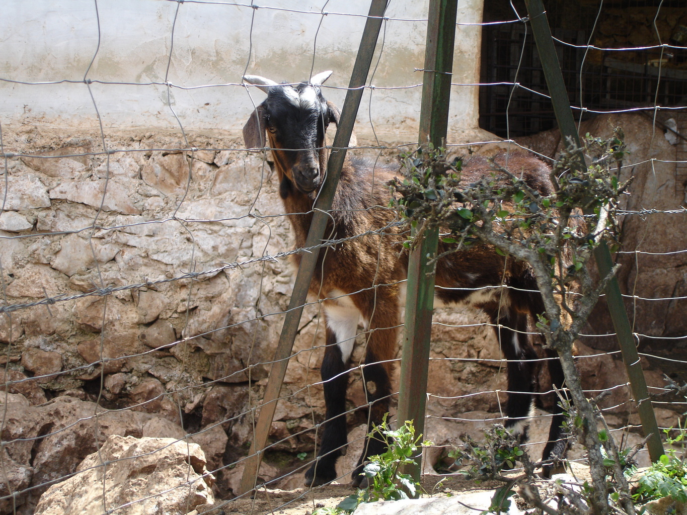 Capra (genus) in Benaocaz, Grazalema Natural Park (Andalusia, Spain)